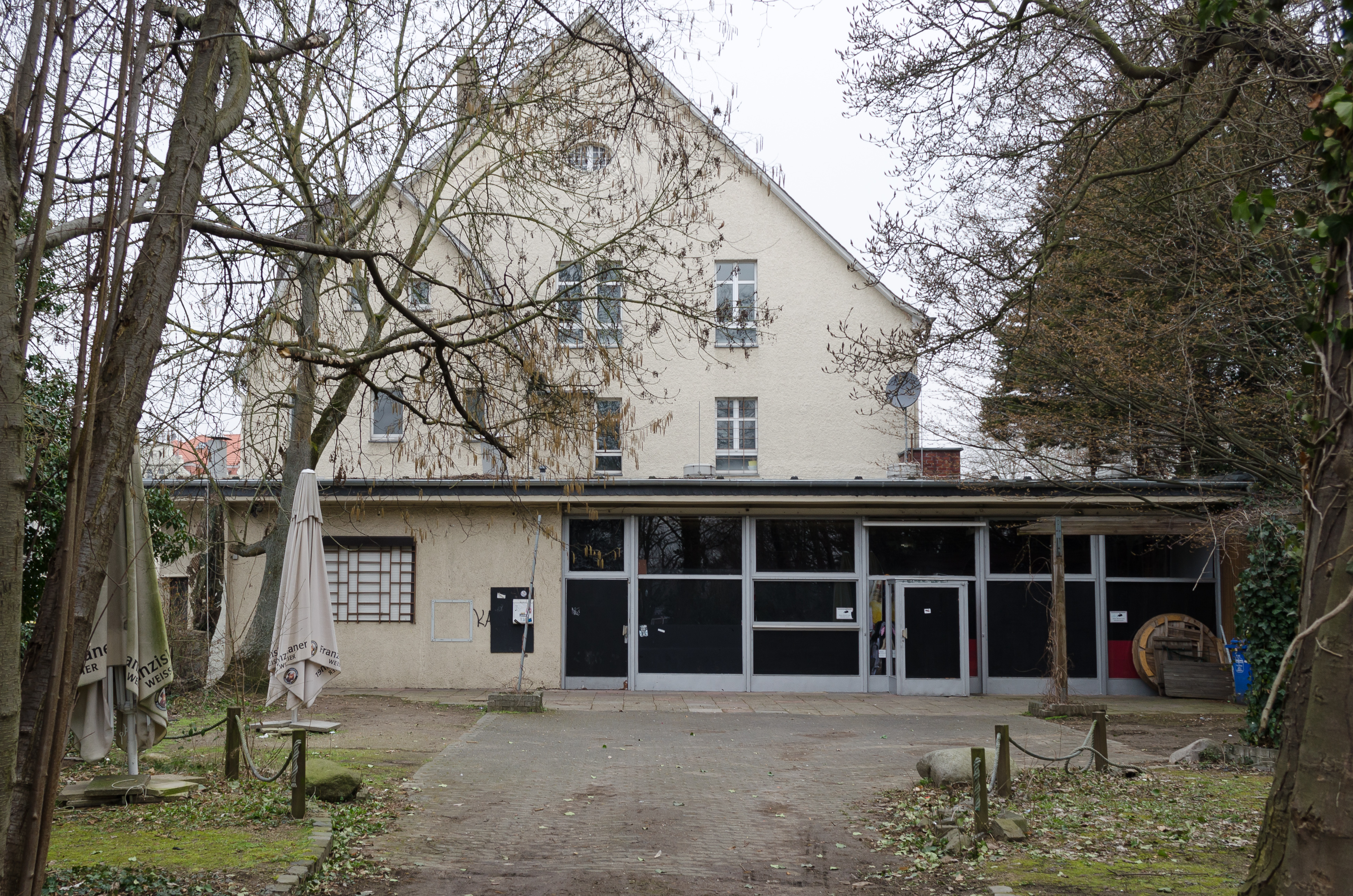 Cultural heritage monument in Bad Godesberg